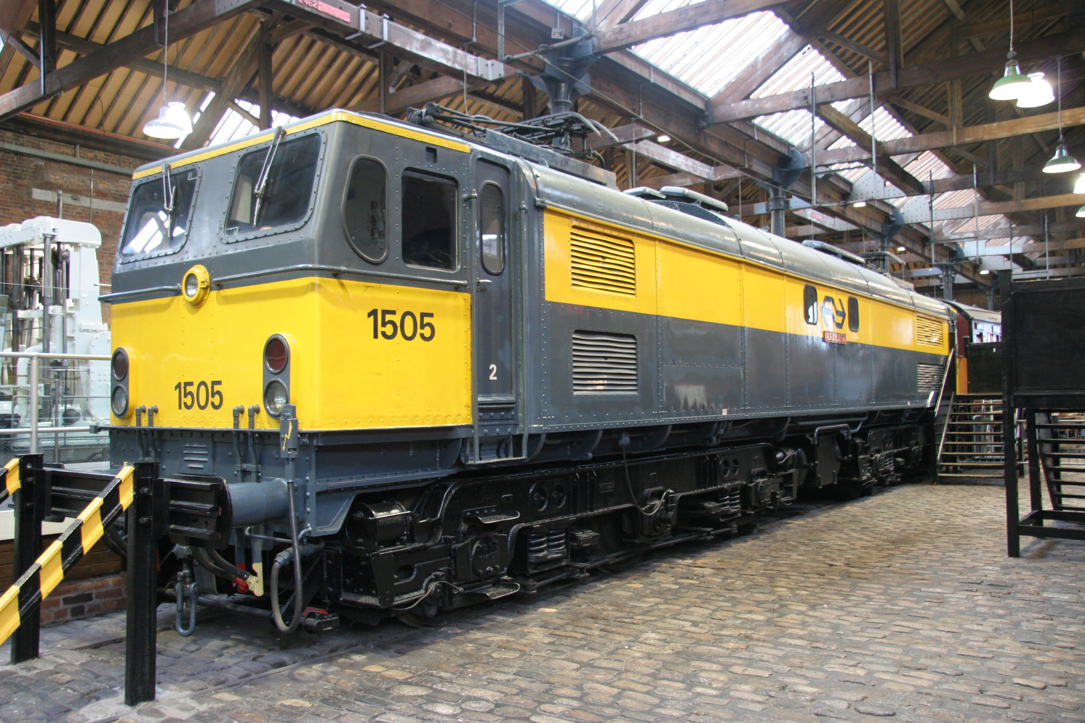 Canon EOS 20D, taken 13 Jan 2006 at Manchester Museum of Science and Industry.